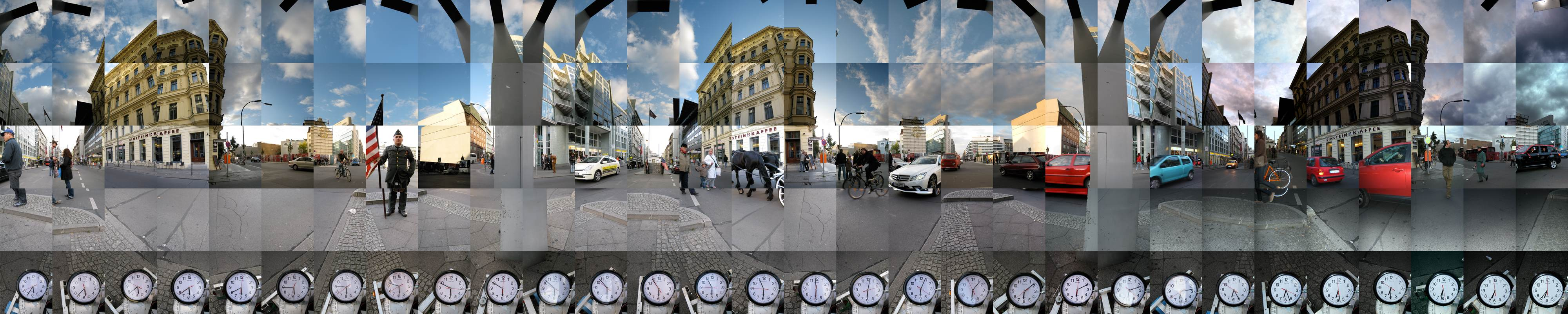 Check Point Charlie 2009